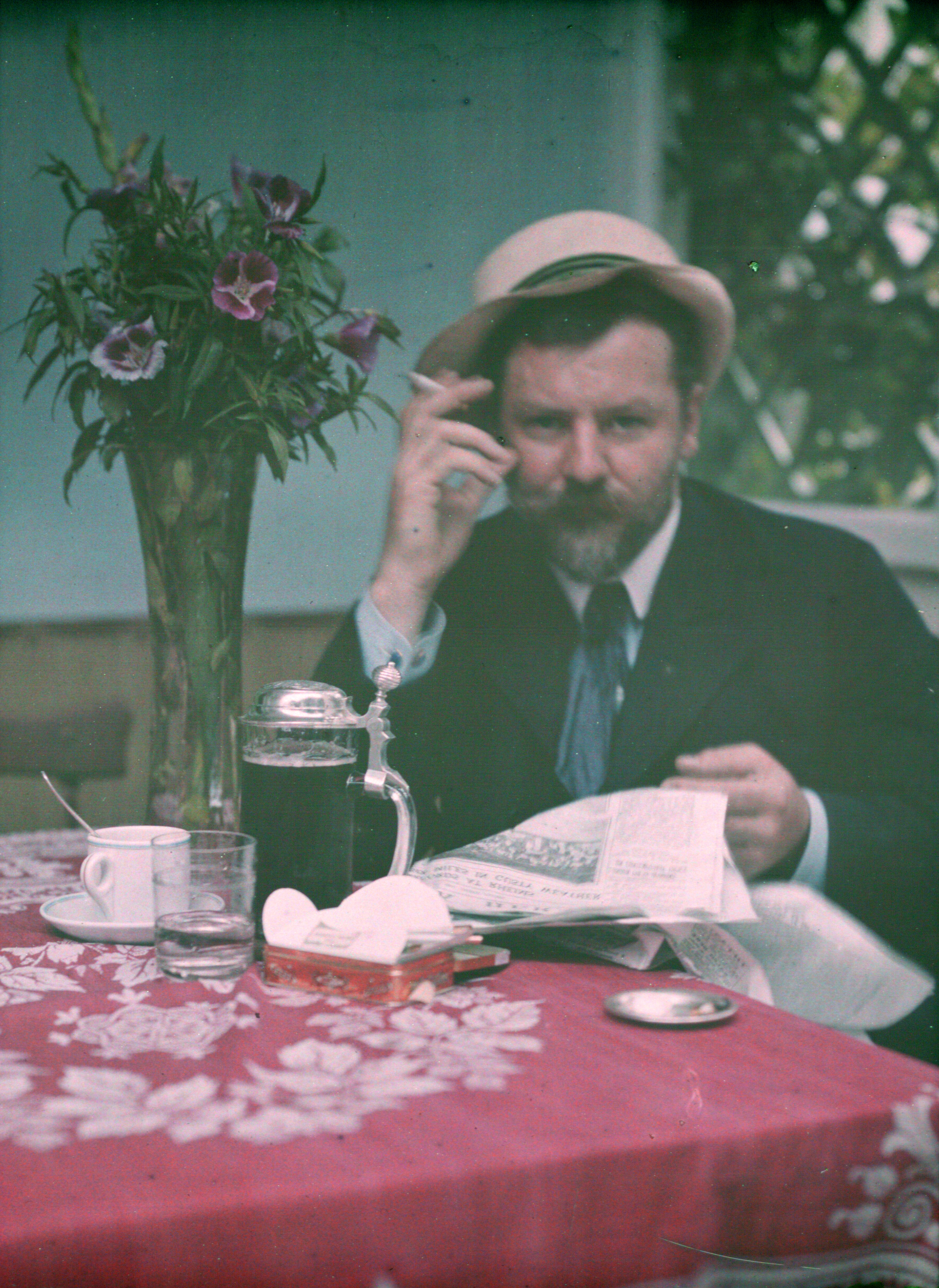 Frank Eugene Autochromes ca. 1907